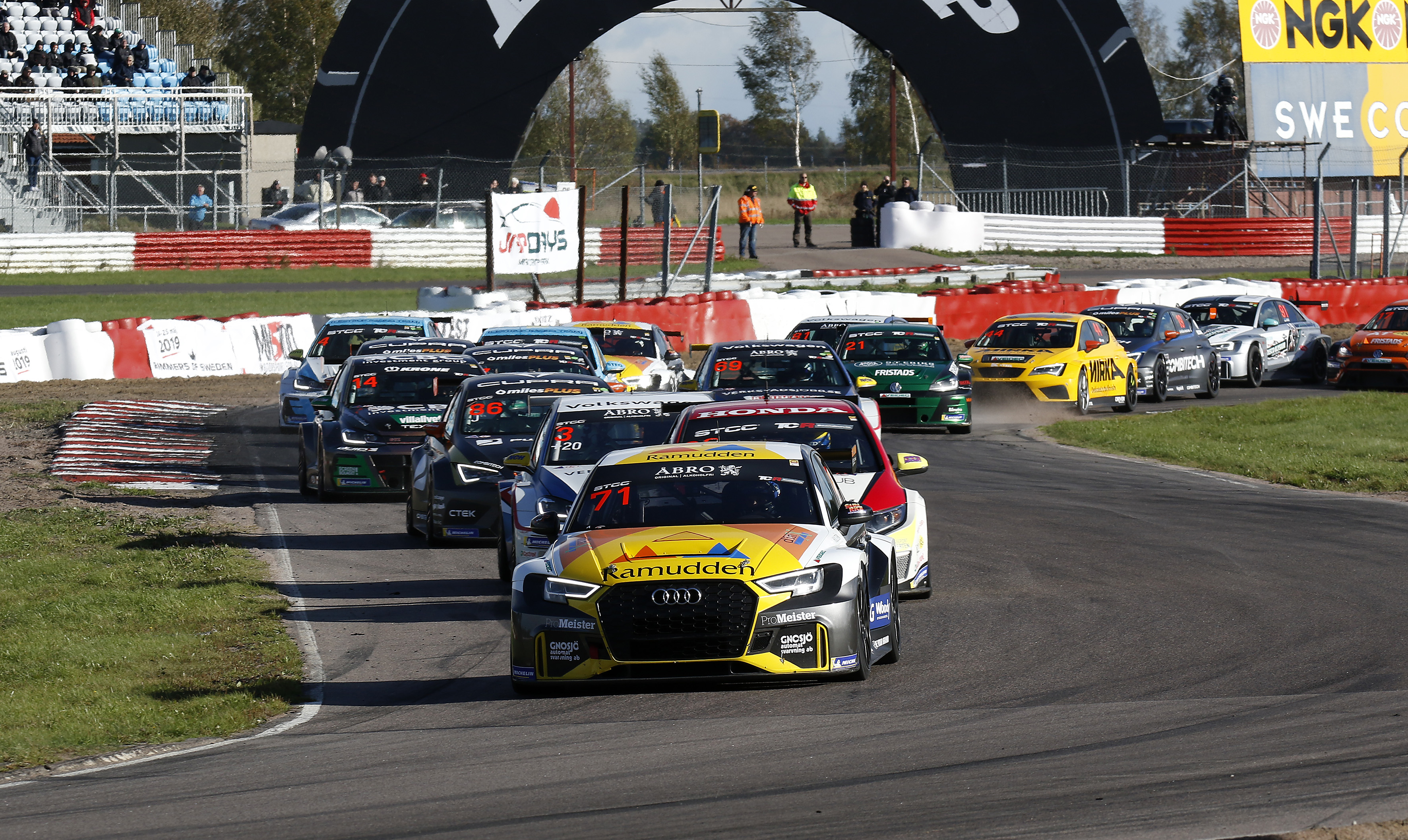 Tobias Brink, driver and founder of Brink Motorsport, leads the final round of the 2018 STCC season in his Audi RS3 LMS TCR.